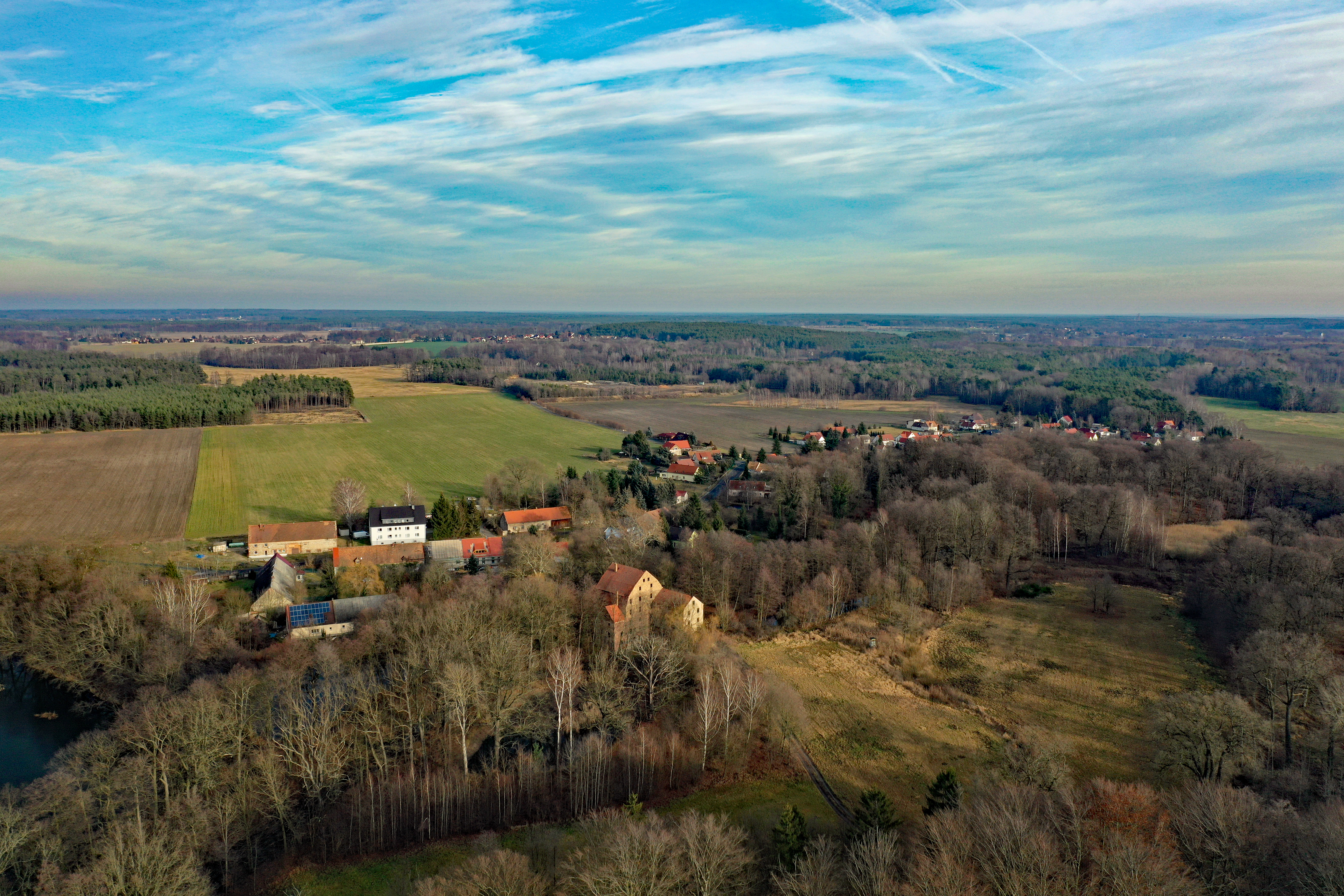 Horscha (Quitzdorf am See, Saxony, Germany)